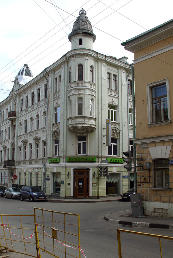 Lyalin Square in Moscow - The Pineapple Building. See also details: Image:Moscow, Bolshoy Kazenny 2.jpg, Image:Moscow, Lyalin Lane mascaron.jpg